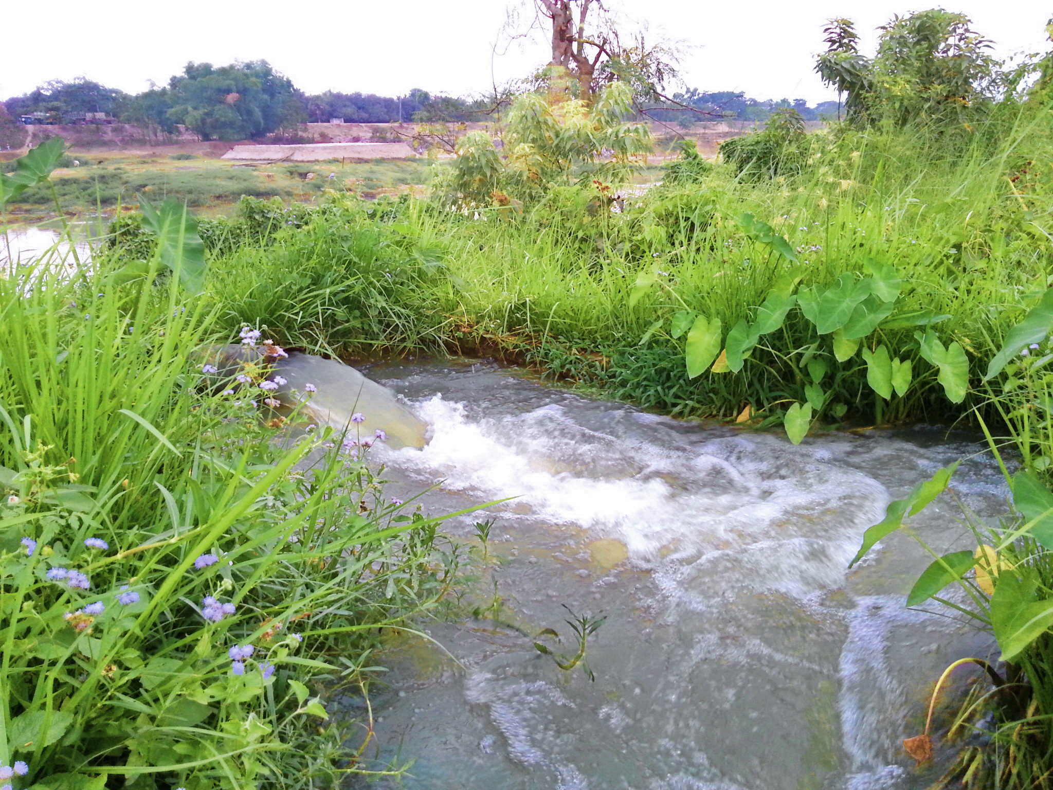 Irrigation is underway by pump-enabled extraction of water directly from the Gomti river, seen in the background, in Comilla, Bangladesh on 25 April 2014.